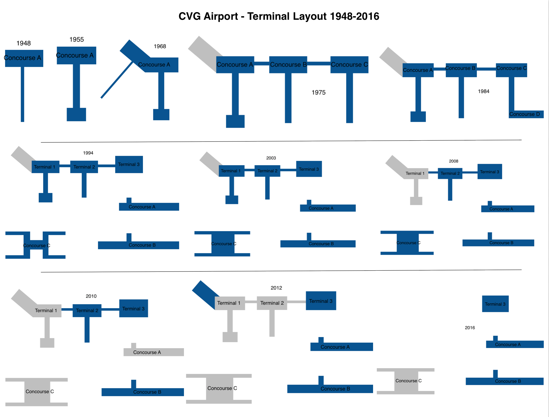 Terminal Layout 1948-2016 at CVG Airport